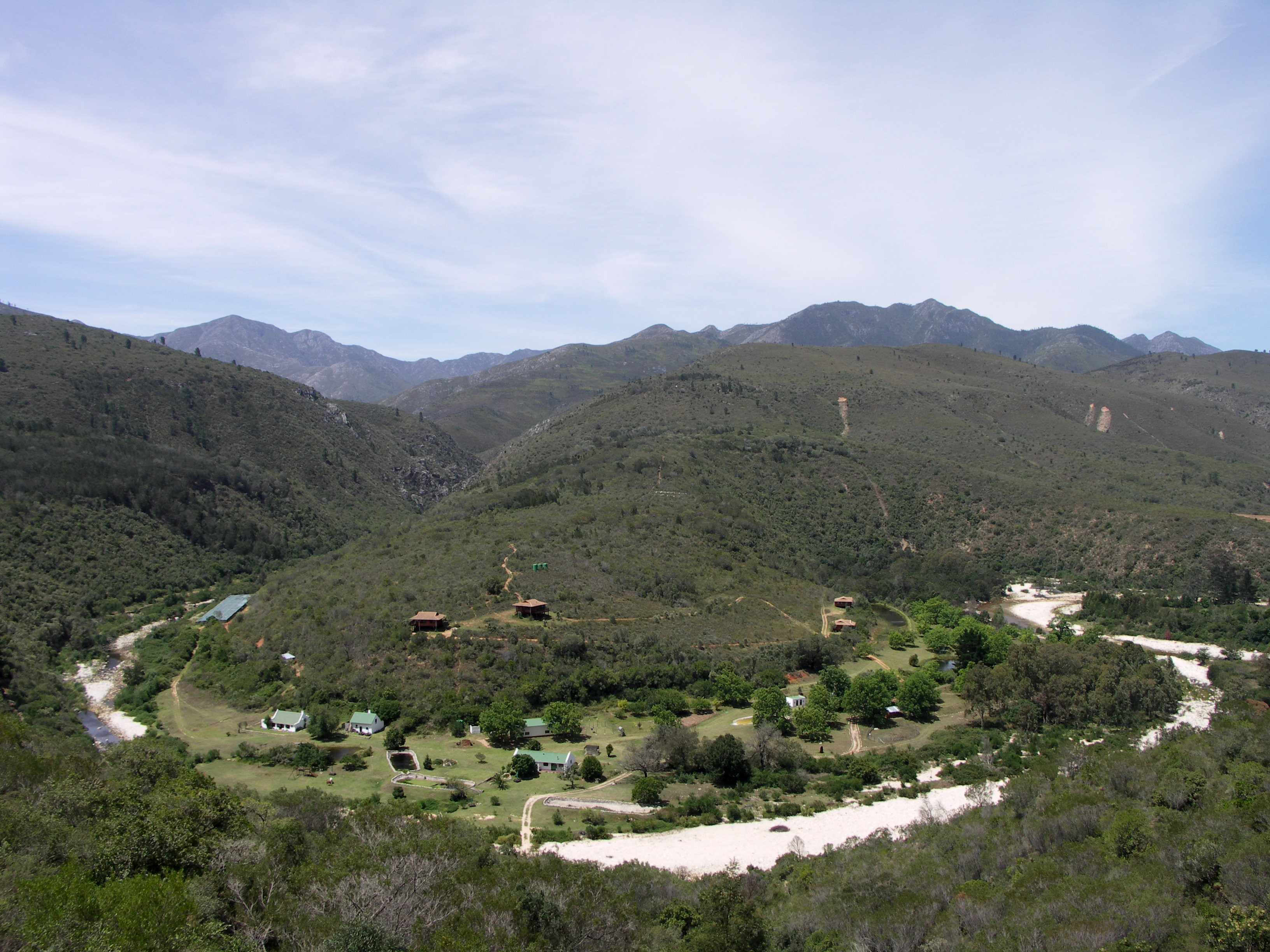 Lodge and trout farm on the Keurbooms River, as seen from the R339 road between Avontuur and Knysna, Western Cape, South Africa